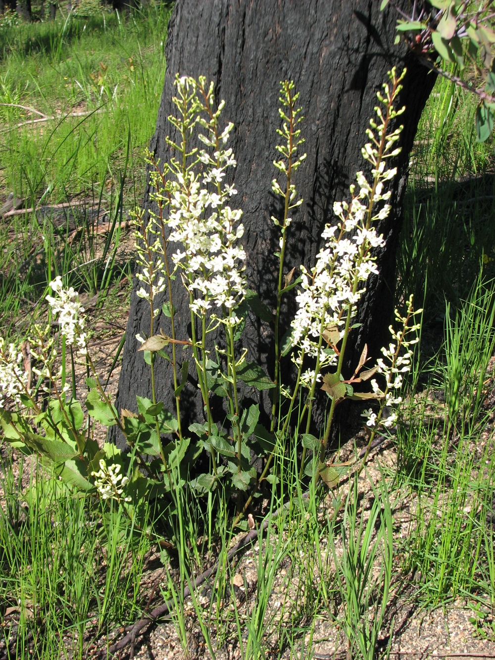 Lomatia ilicifolia, Bunyip State Park, Victoria, Australia